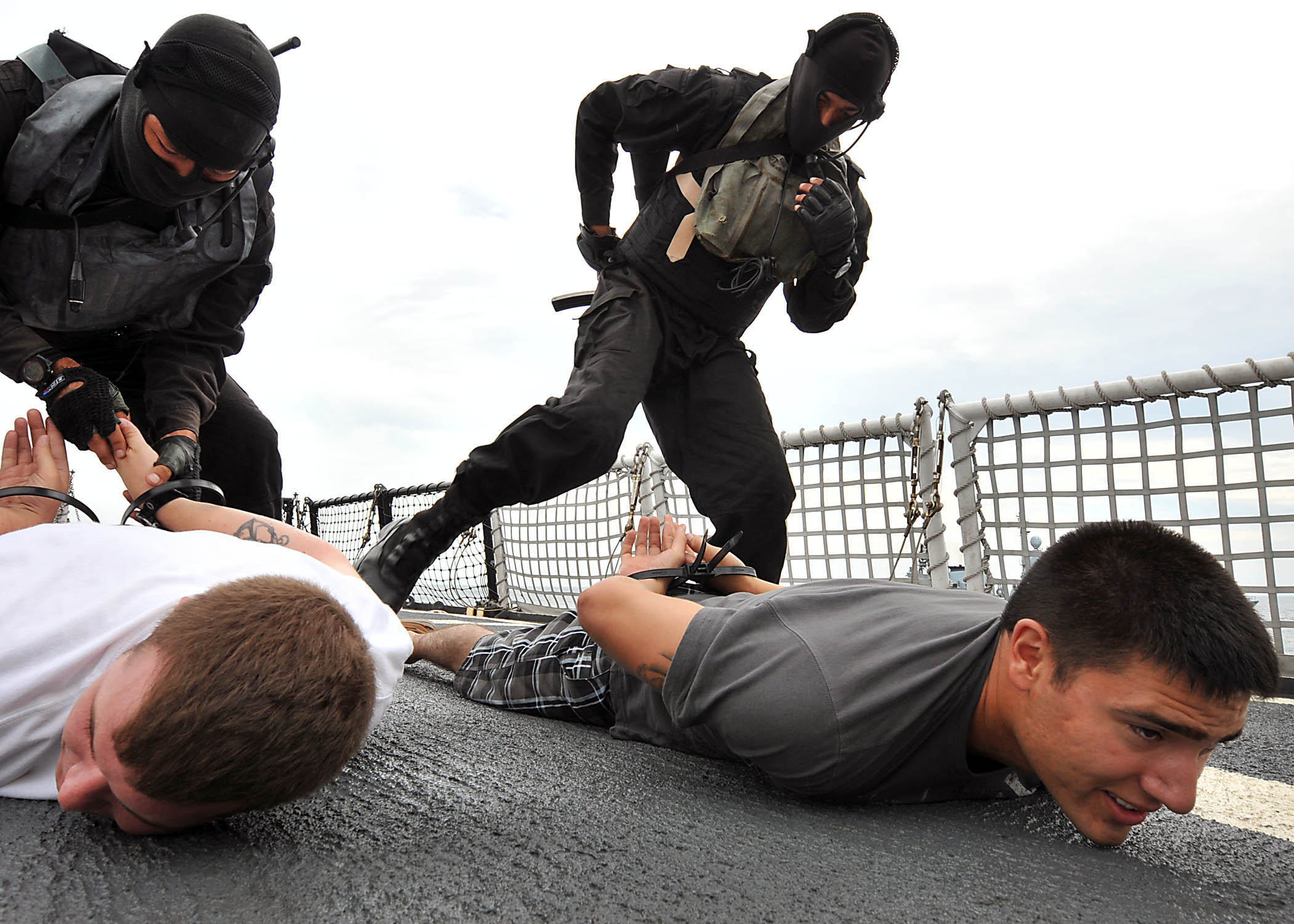 100623-N-7643B-139 ANDAMAN SEA (June 23, 2010) Royal Malaysian Navy sailors search and flex-cuff suspects during a boarding exercise aboard the U.S. Coast Guard cutter (USCGC) Mellon (WHEC 717) as part of Southeast Asia Cooperation Against Terrorism (SEACAT) 2010. SEACAT is a weeklong at-sea exercise designed to highlight the value of information sharing and multinational coordination. U.S. Navy photo by Mass Communication Specialist 2nd Class David A. Brandenburg. (RELEASED)